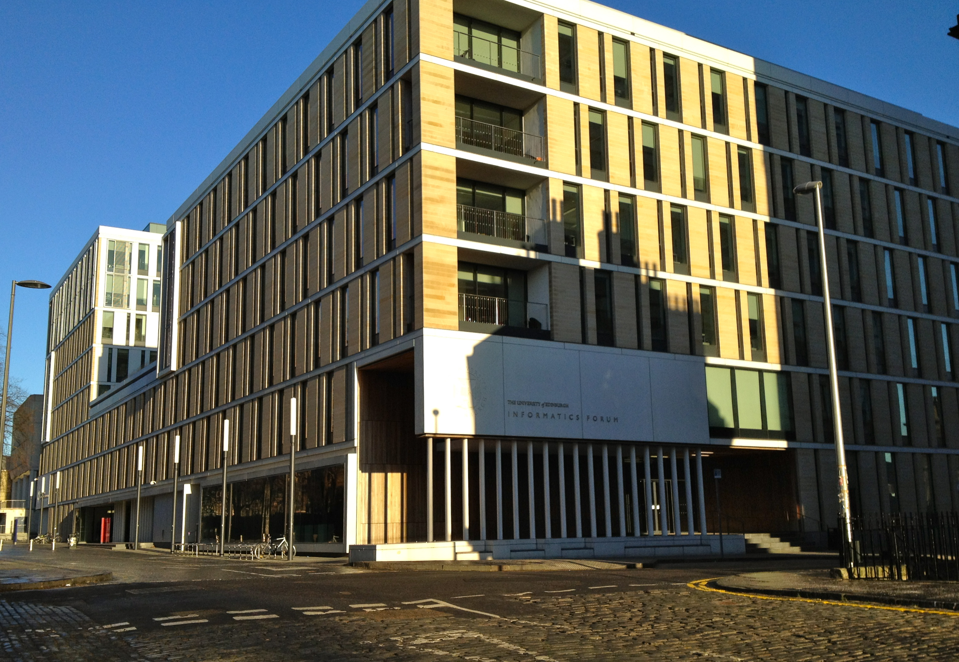 Informatics Forum, University of Edinburgh, UK